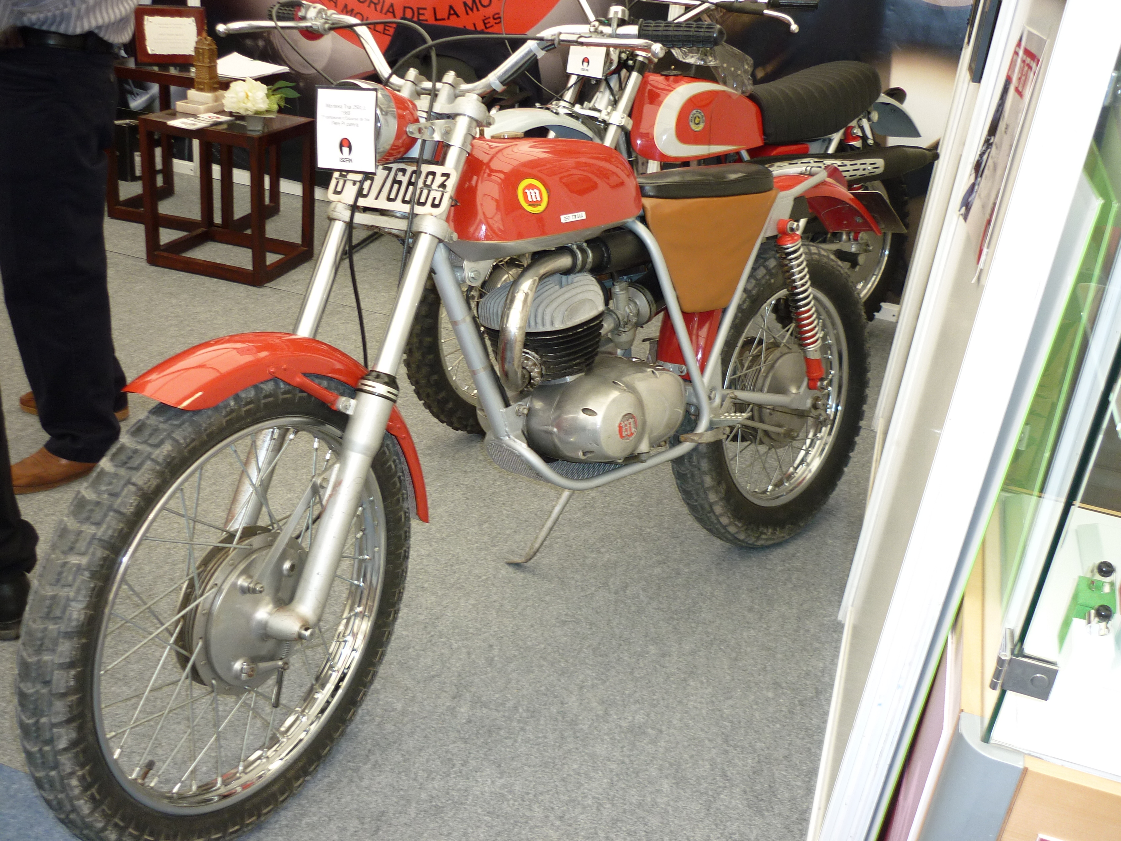 Montesa 250 Trial, the forerunner of the famous Cota 247. Pere Pi won the first Spanish Trials Championship in 1968, riding this bike.Exposed by Josep Isern at the FIMO (Mollet del Vallès, Catalonia, 1 to 3 October 2010)